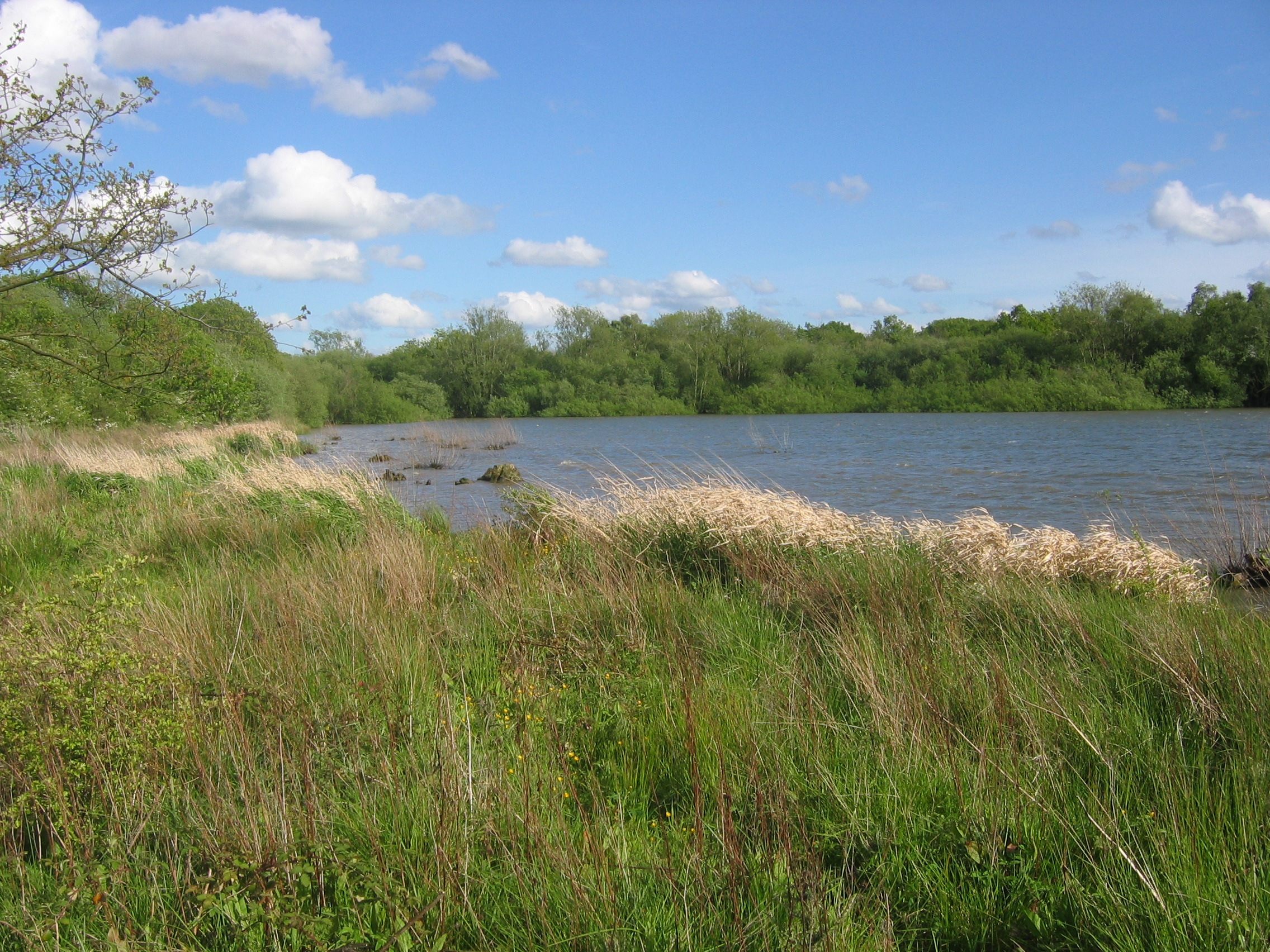 Upper bittell reservoir from the conservation area.